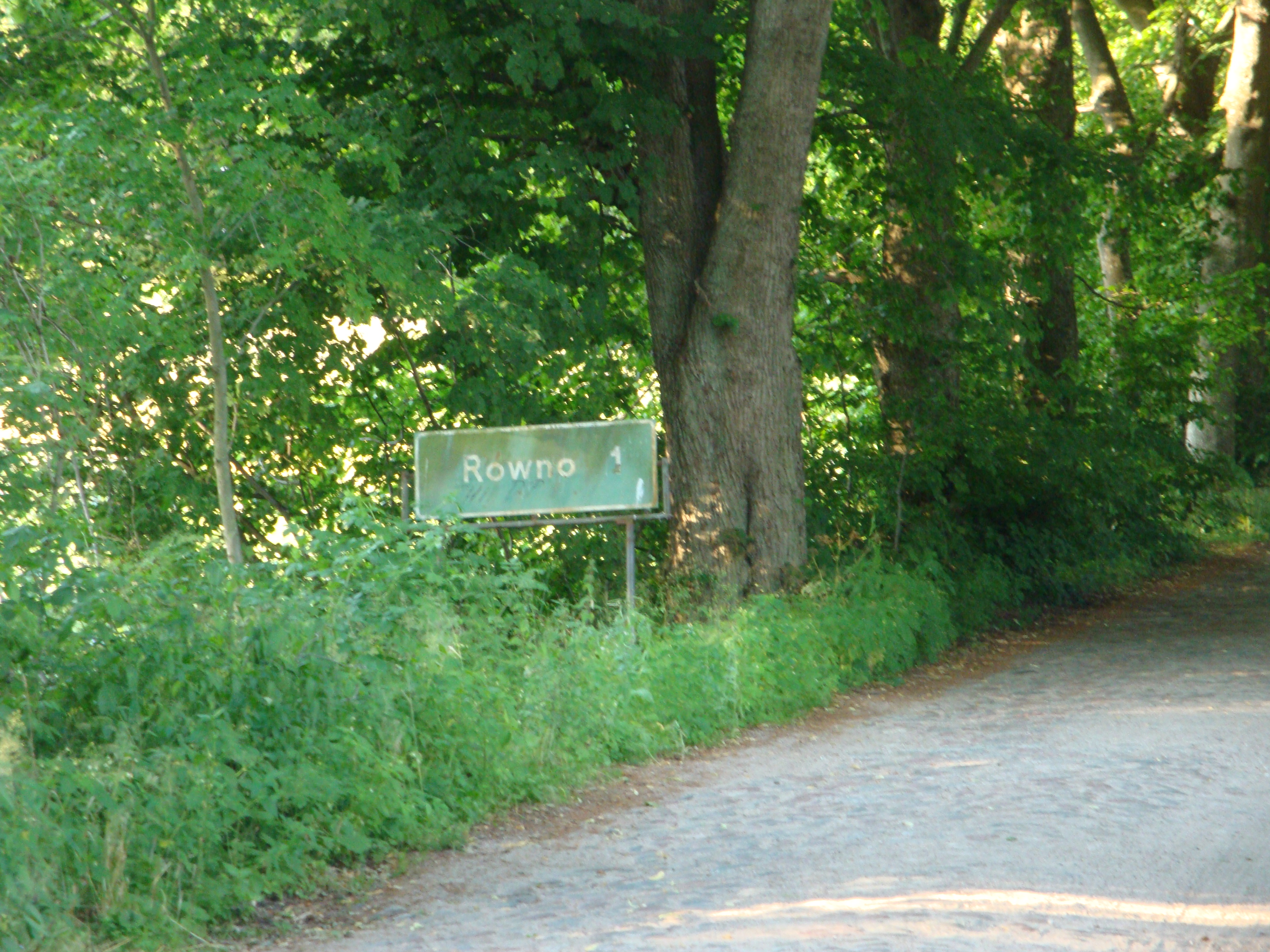 Równo-village in Pomeranian Voivodeship, Poland